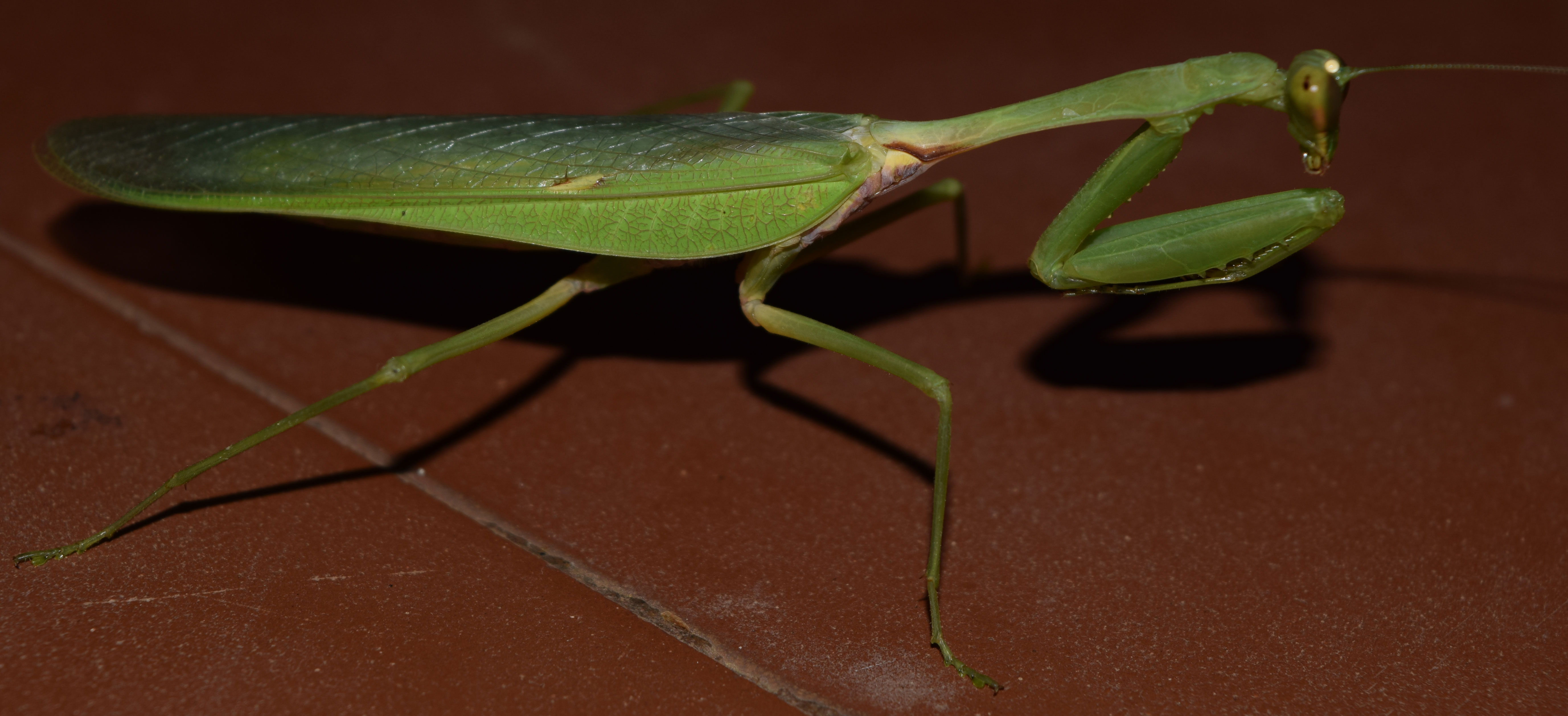 Sphodromantis viridis